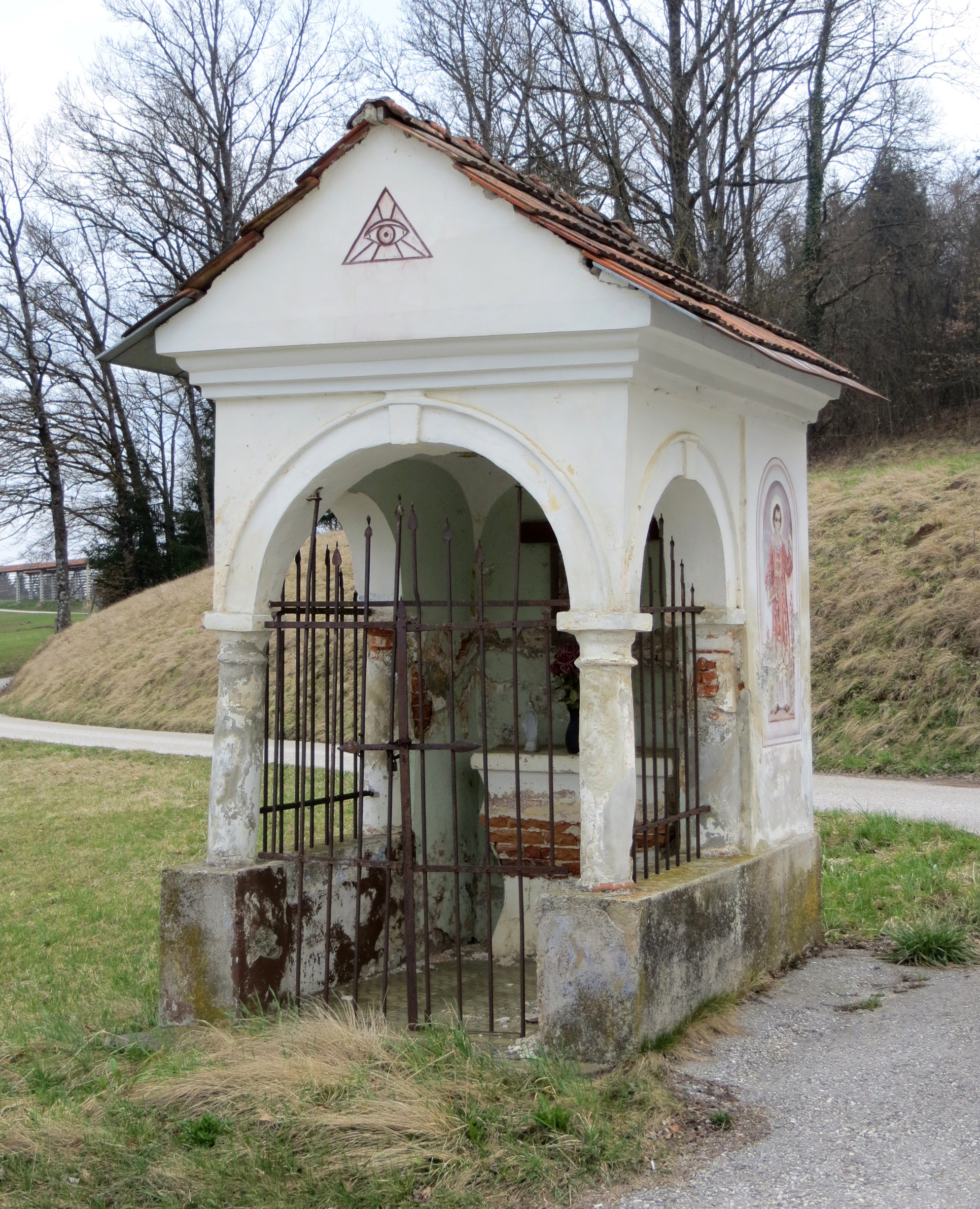 Wayside chapel shrine (19th century) in Kremenica, Municipality of Ig, Slovenia